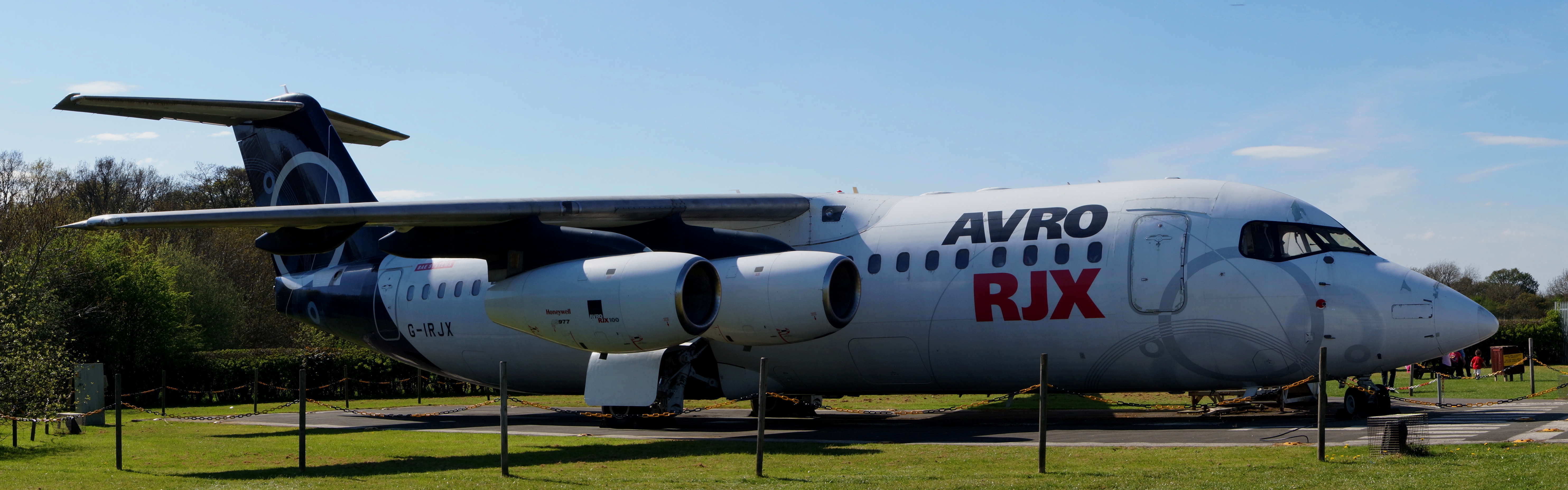 the Avro RJX, was announced in 1997, but only two prototypes and one production aircraft were built before production ceased in 2001